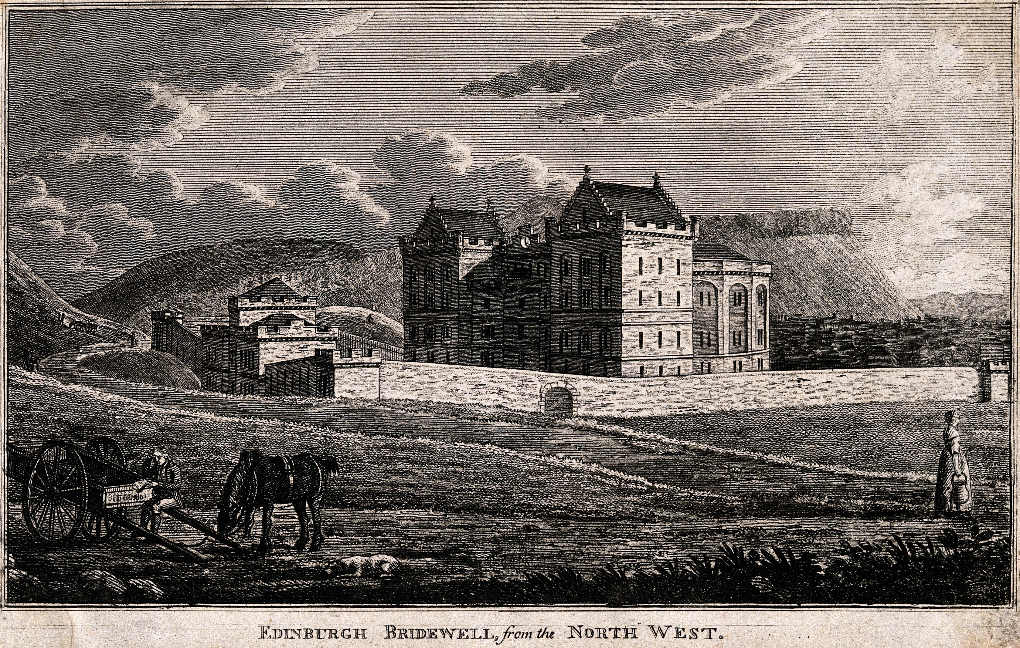 Bridewell Prison, Edinburgh, Scotland. Line engraving. Iconographic Collections